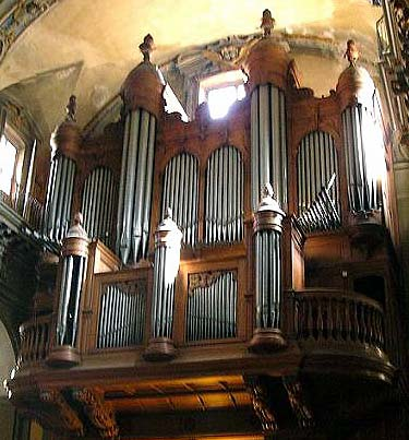 Boisseau pipe organ (built 1974) of the cathedrale Sainte-Reparate of Nice (France).